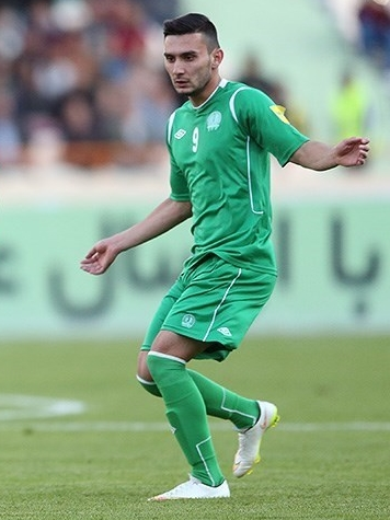 Iran Overpowers Turkmenistan in World Cup Qualifying